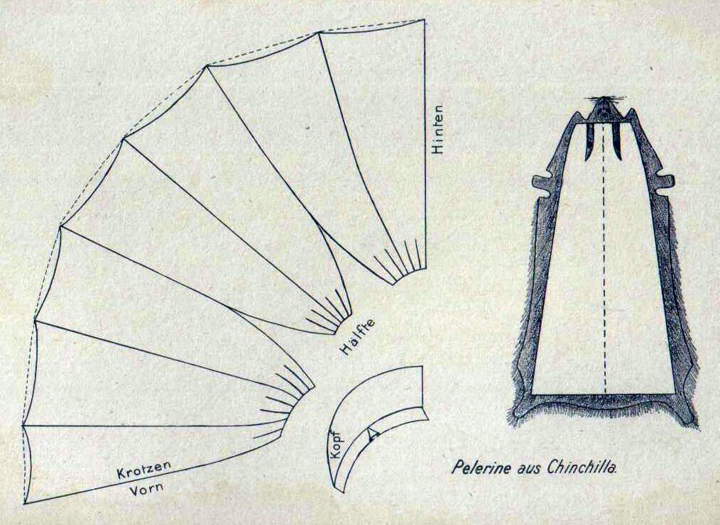 Graphics for Furriers